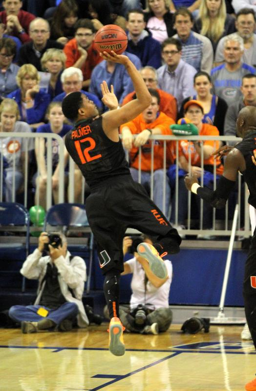 James Palmer Scored 10 Points Florida Gators vs William&Mary Basketball 2014